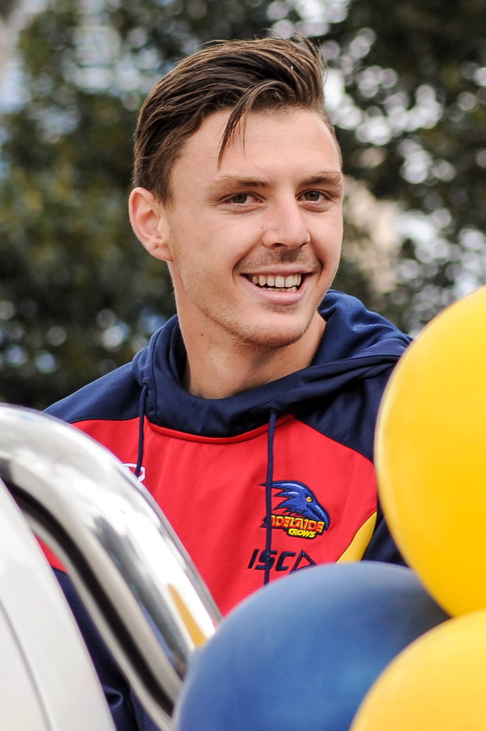 Jake Lever at the 2017 AFL Grand Final parade on 29 September 2017 in Melbourne, Victoria.